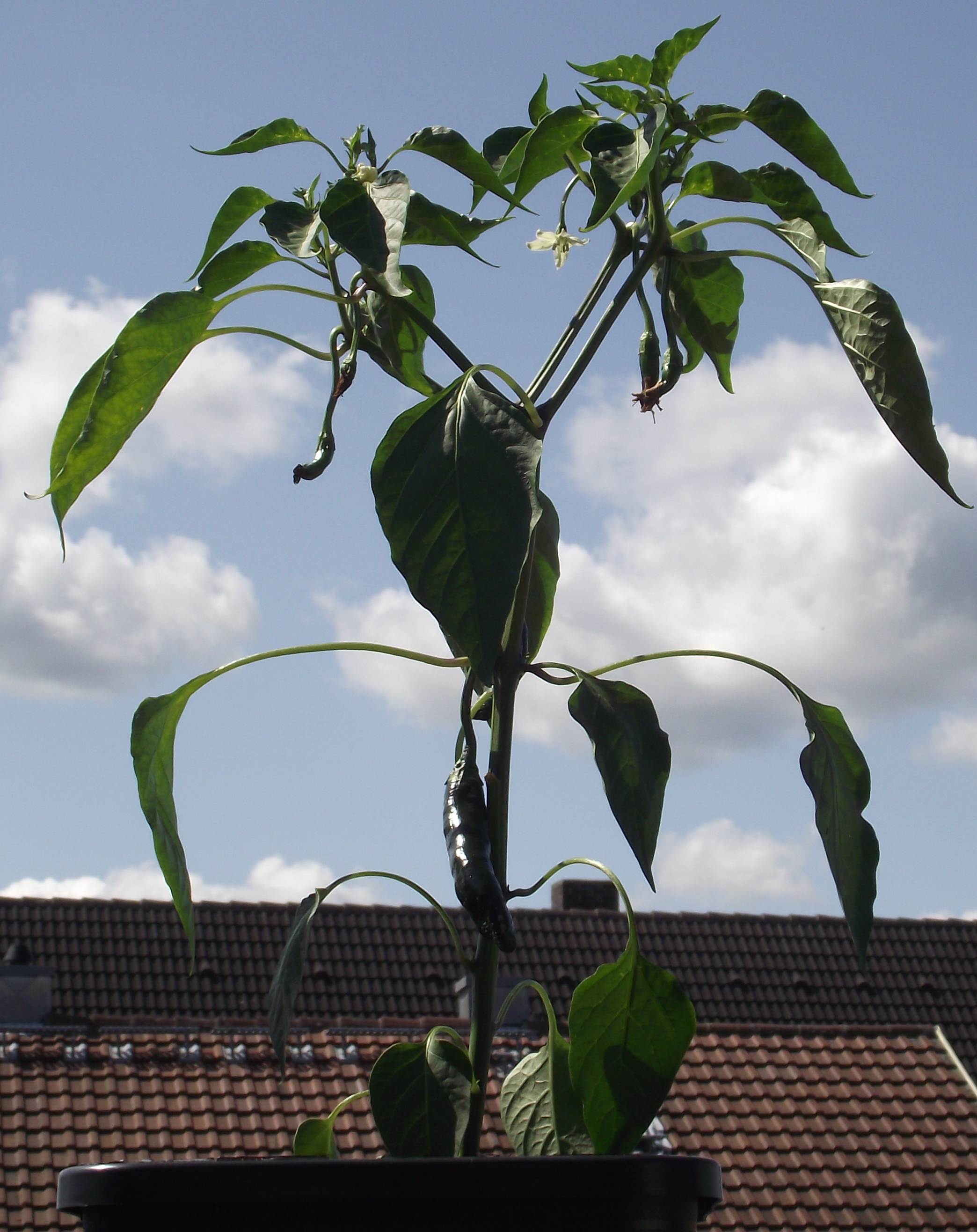 About three-month-old Pasilla chile.